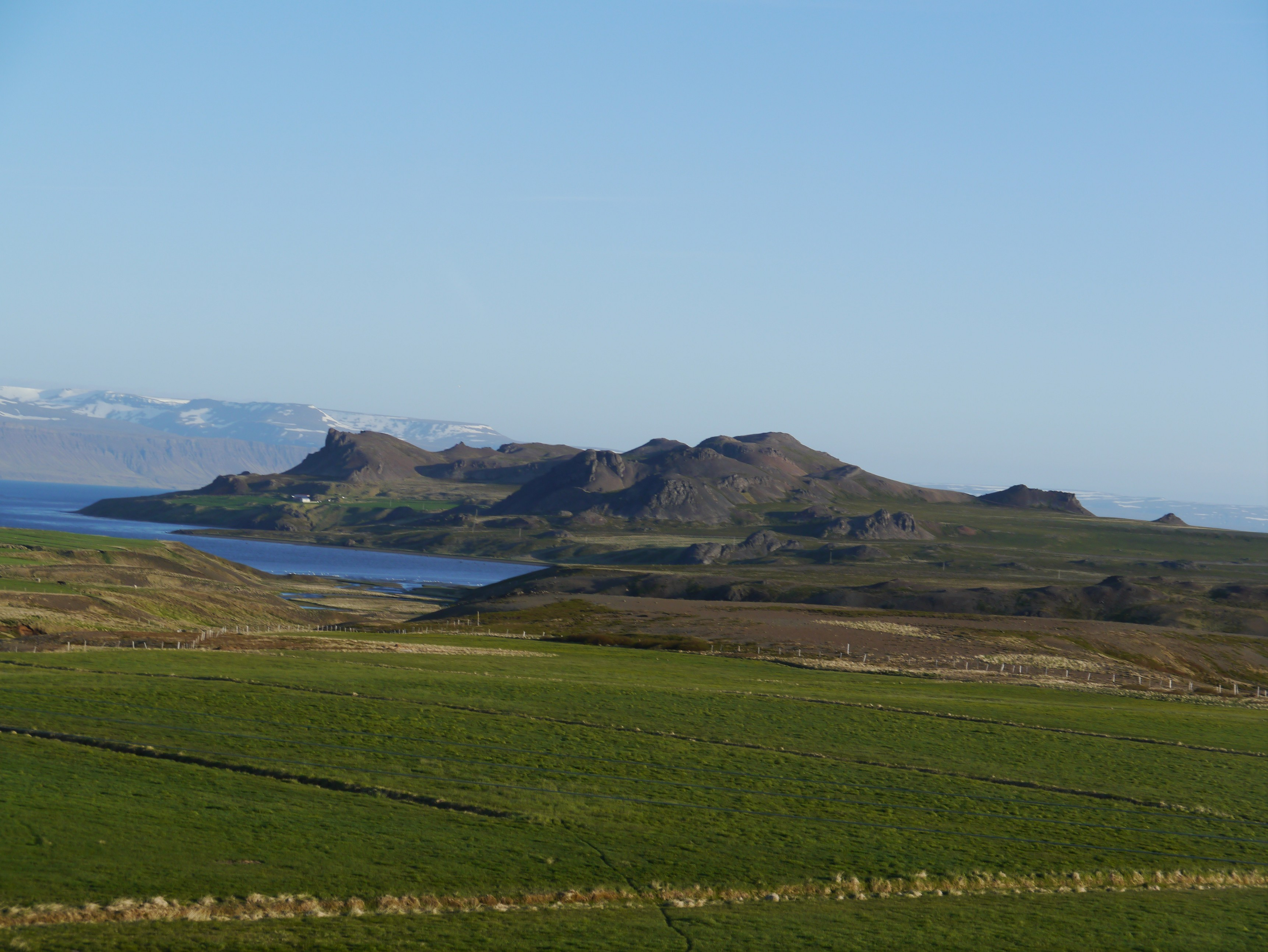 the Icelandic Westfjords